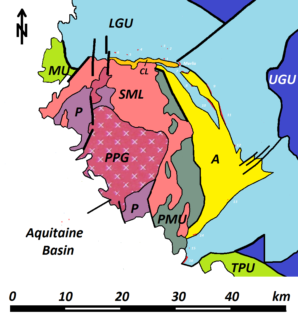 Geological map of the Saint-Mathieu Dome in the northwestern Massif Central indicating the position of the Merlis Serpentinites.